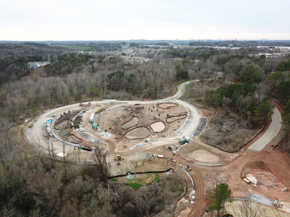 Aerial view of the area being developed as part of phase 1 of Atlanta's Westside Park